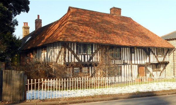 Little St. Katherines at Shorne